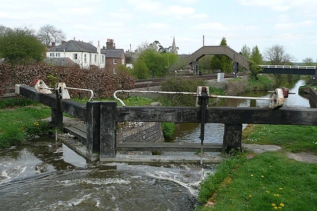 Little Bedwyn Lock Little Bedwyn is one of the classic places on the canal for photographs, showing some combination of the railway, the canal, the church, the lock and the footbridge. It also happens to be on the border of two grid squares. I was waiting for a train to come as we worked the lock, but as you can see from the wash our boat is leaving and I'm meant to be on board.